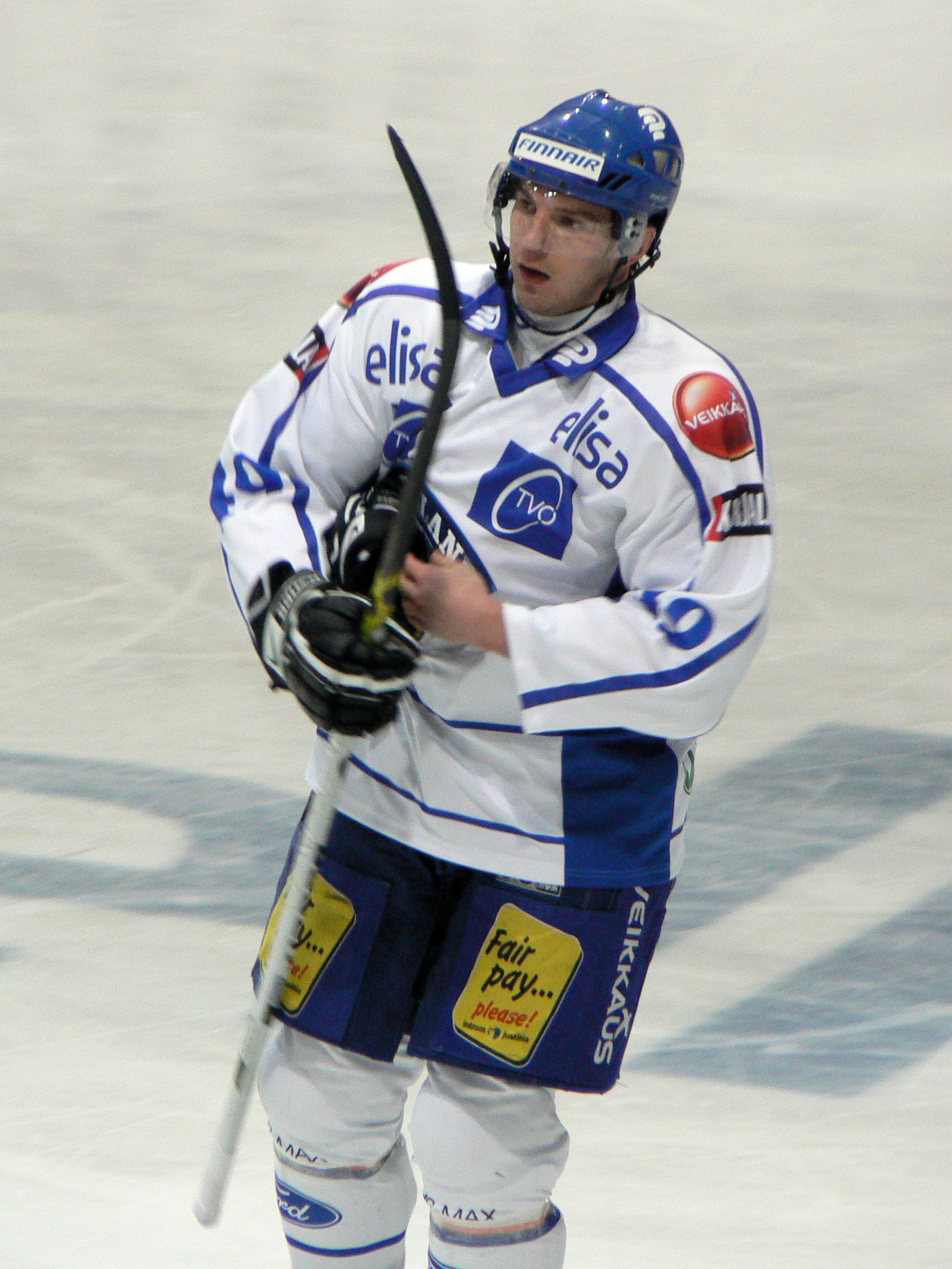 Finnish ice hockey forward Tuomas Pihlman playing for Team Finland in an LG Hockey Games / Euro Hockey Tour match in Tampere, Finland, in February 2008.